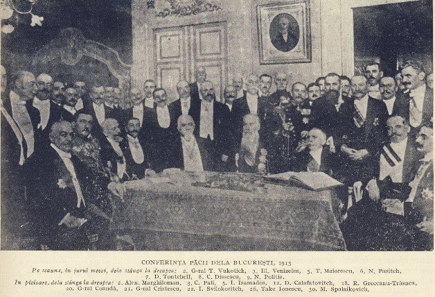 Bucharest Peace Conference delegates (1913). Among those pictured: Eleftherios Venizelos; Titu Maiorescu; Dimitar Tonchev; Constantin Dissescu; Nikolaos Politis; Alexandru Marghiloman; Danilo Kalafatović; Constantin Coandă; Constantin Cristescu; Take Ionescu; Miroslav Spalajkovic; and "T. Vukotich" (Janko Vukotić?).